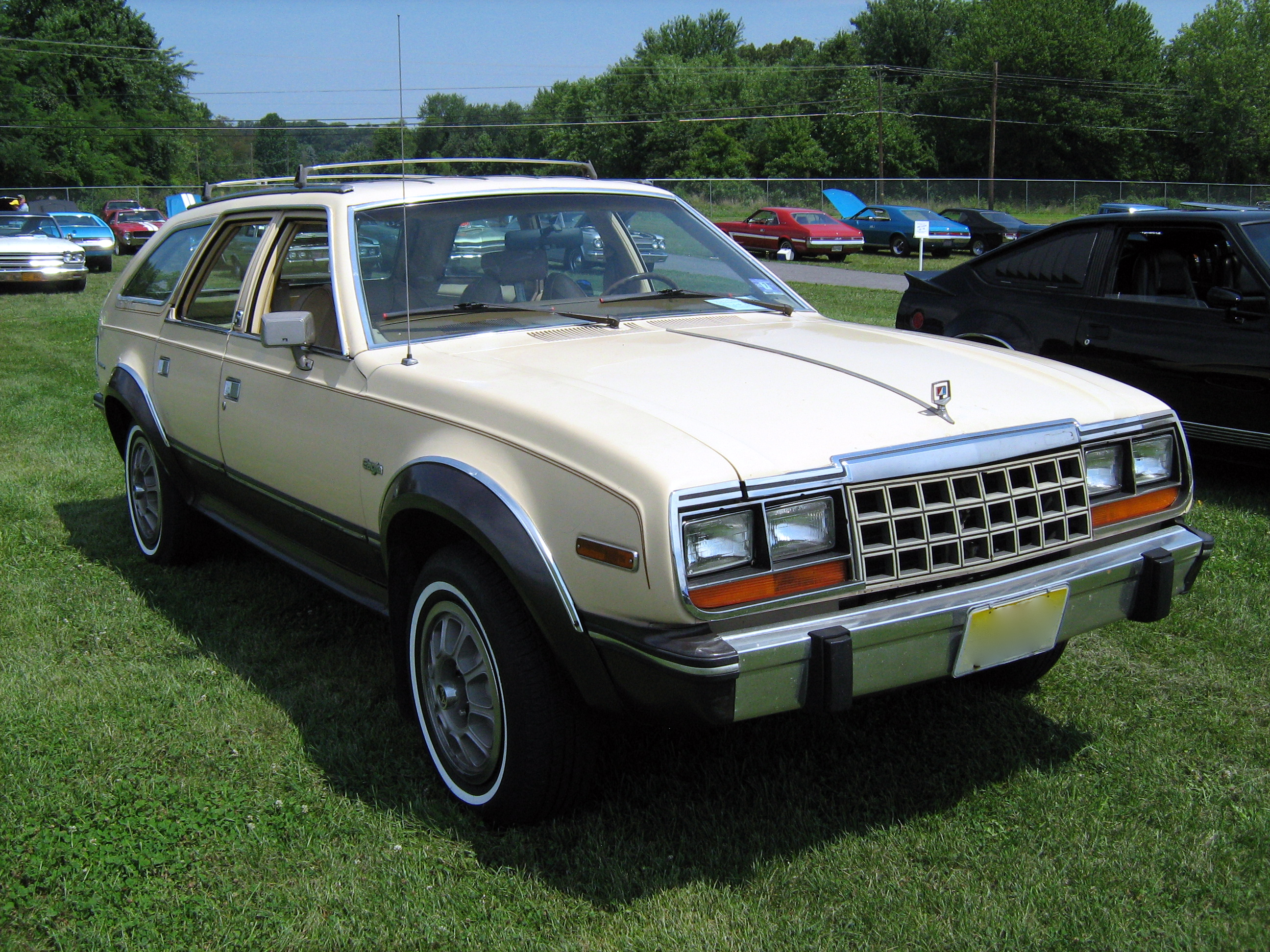 1983 AMC Eagle station wagon, an innovative automatic all wheel drive vehicle made by the American Motors Corporation (AMC). Right front view. Picture taken at an AMC show held at the Cecil County Dragstrip in Maryland.